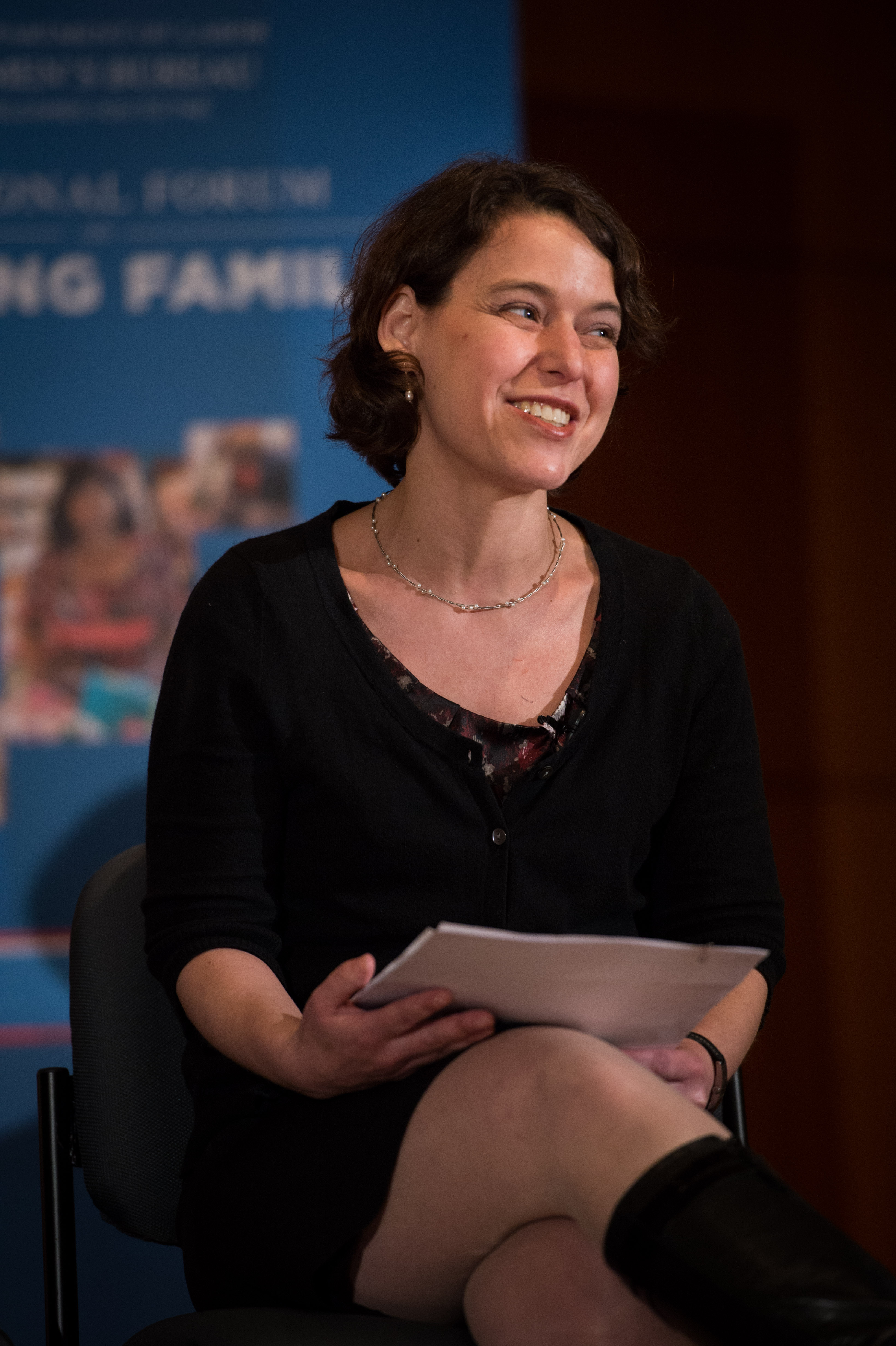 May 27, 2014 - San Francisco, California, United States: Vicki Shabo, Vice President, National Partnership for Working Families, speaks during the panel discussion on The Future of Work Family Policy at The Department of Labor Regional Forum in San Francisco as part of the White House Summit on Working Families in the Milton Marks Auditorium, San Francisco, California.